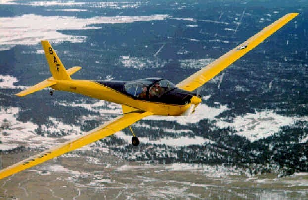 TG-7A training motorglider